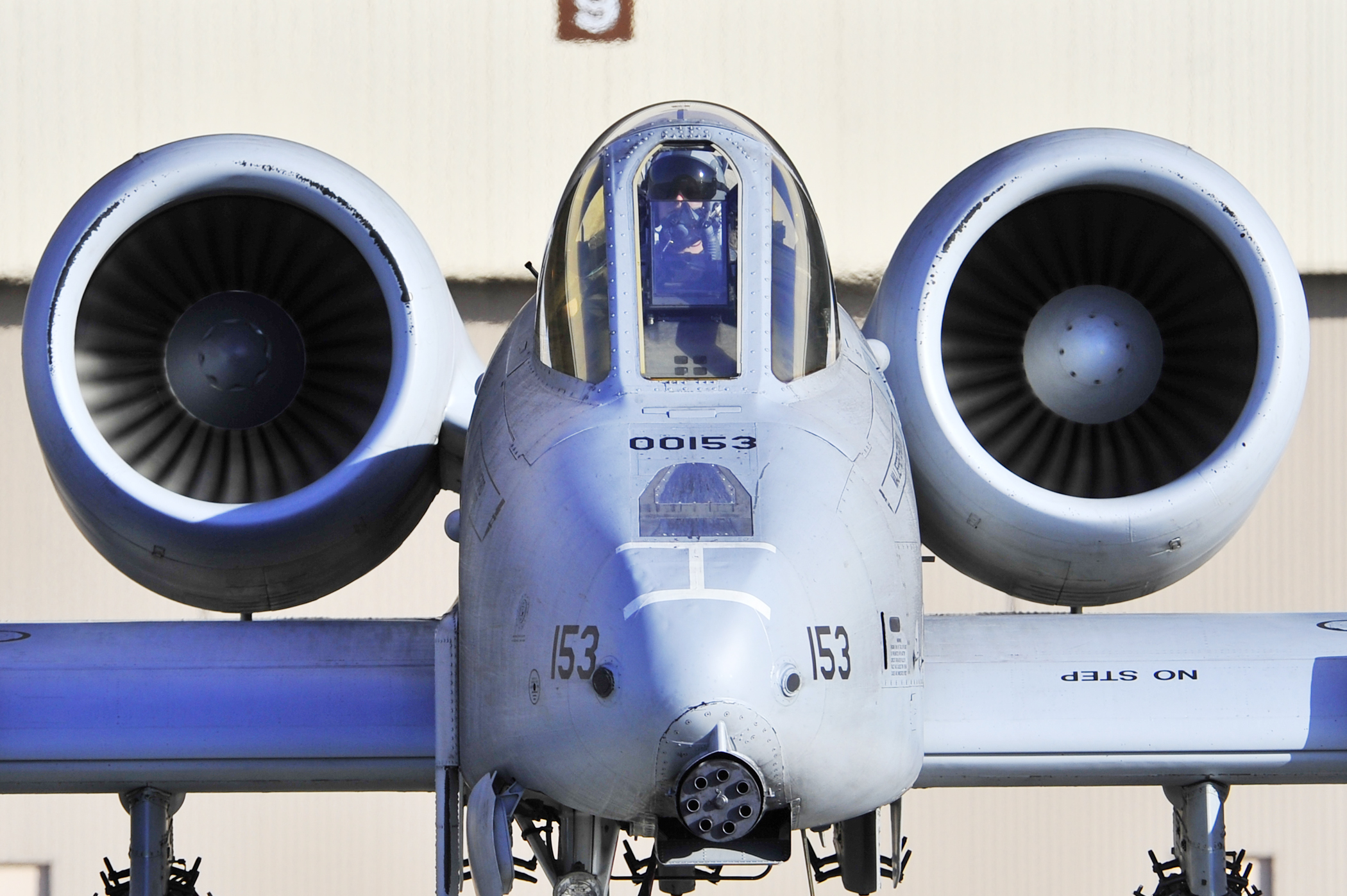 An A-10 Thunderbolt II makes its way to the runway during Red Flag-Alaska, Oct. 9, 2009, at Eielson Air Force Base, Alaska. Red Flag-Alaska provides participants 67,000 square miles of airspace, more than 30 threat simulators, one conventional bombing range and two tactical bombing ranges. The A-10 is assigned to Osan Air Base, South Korea.